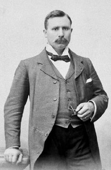 Tom Mann (1856-1941)